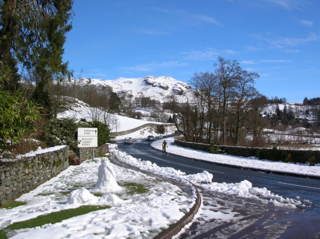 A593 through Skelwith Bridge The Ambleside to Coniston road passing through Skelwith Bridge.